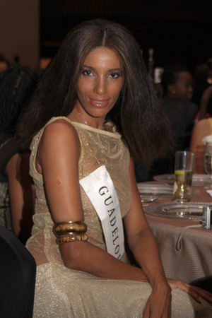 Miss Guadeloupe 2008 Frederika Charpentier during Miss World 08 in Johannesburg